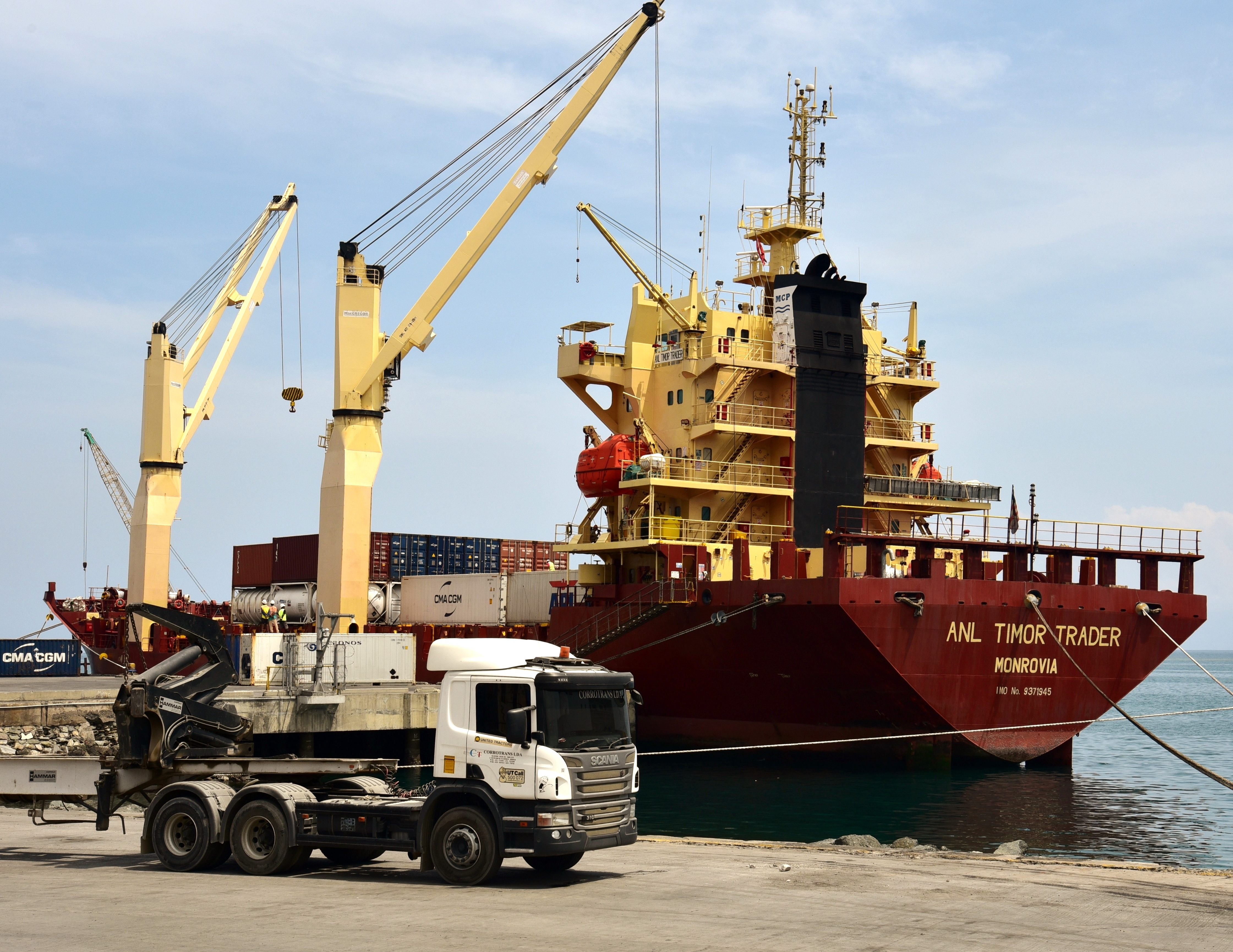 General cargo ship ANL Timor Trader berthed at Dili, East Timor